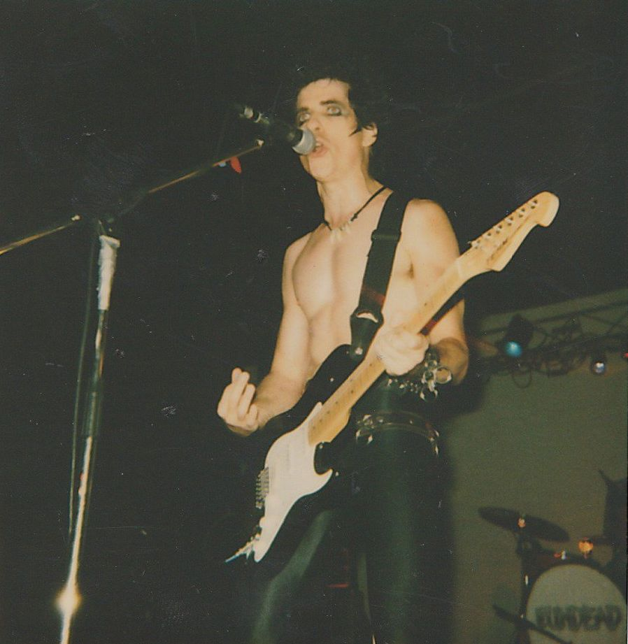 The Undead, live at the Emerson Theater, Indianapolis, Indiana.